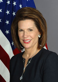 Nancy G. Brinker. Chief of Protocol of the United States, and founder of Susan G. Komen for the Cure. U.S. government photo.